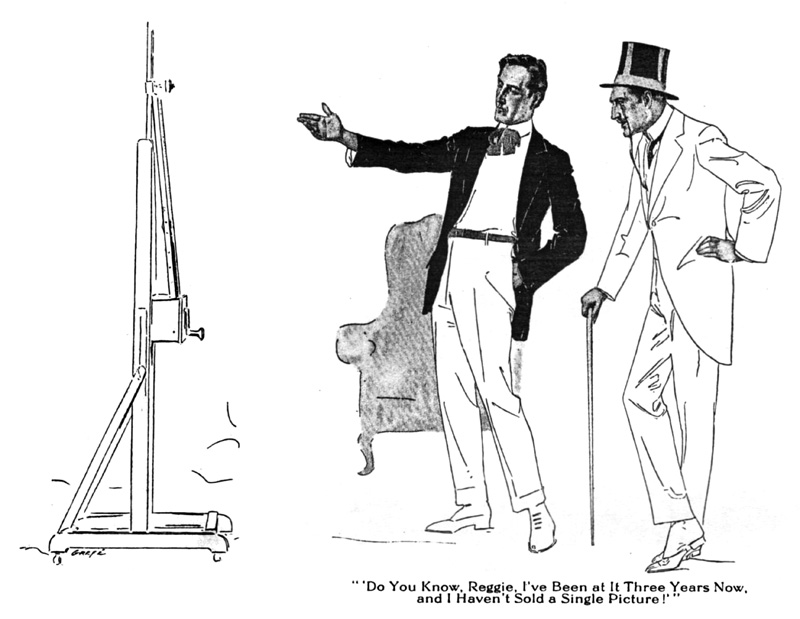 Illustration by Will Grefé for the short story "Concealed Art" written by P. G. Wodehouse. Published in Pictorial Review, July 1915.